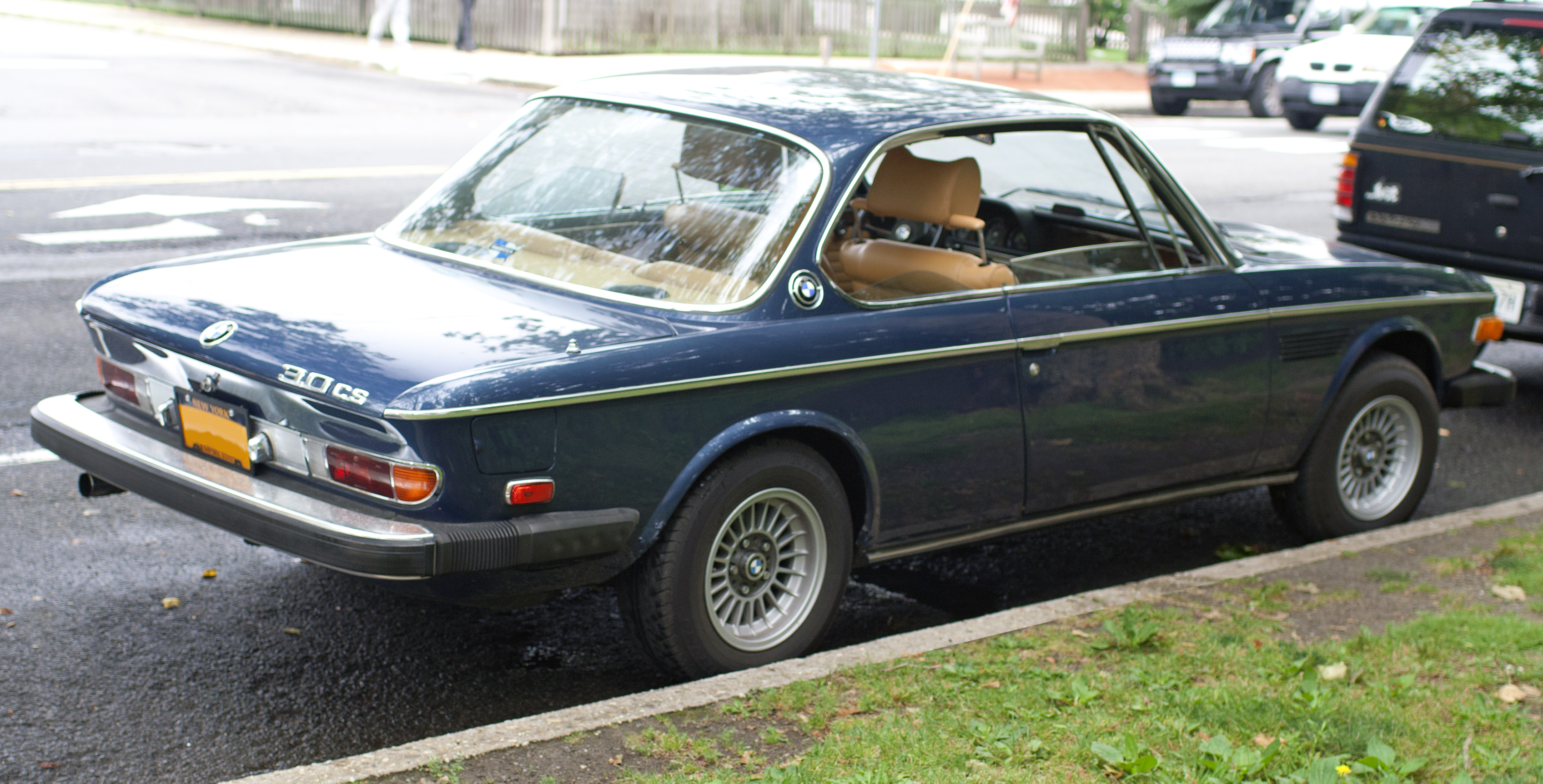 1974 BMW 3.0 CS, US-market version with giant bumpers